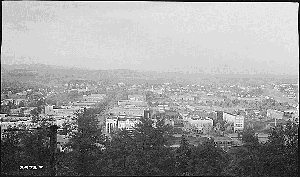 View of Kingsport, Tennessee, USA in 1937.